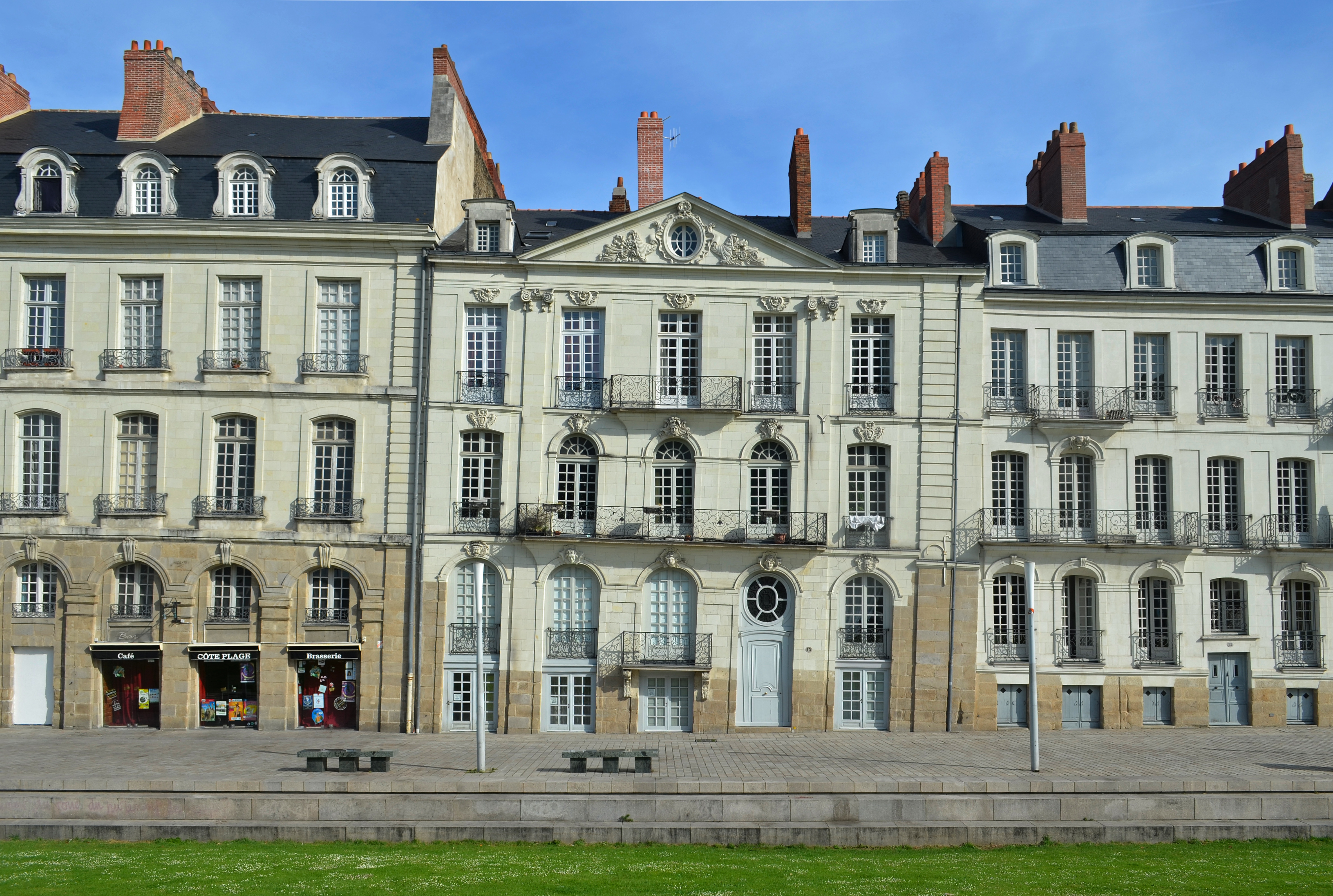 Perraudeau building - 13 Turenne quay, Nantes, France